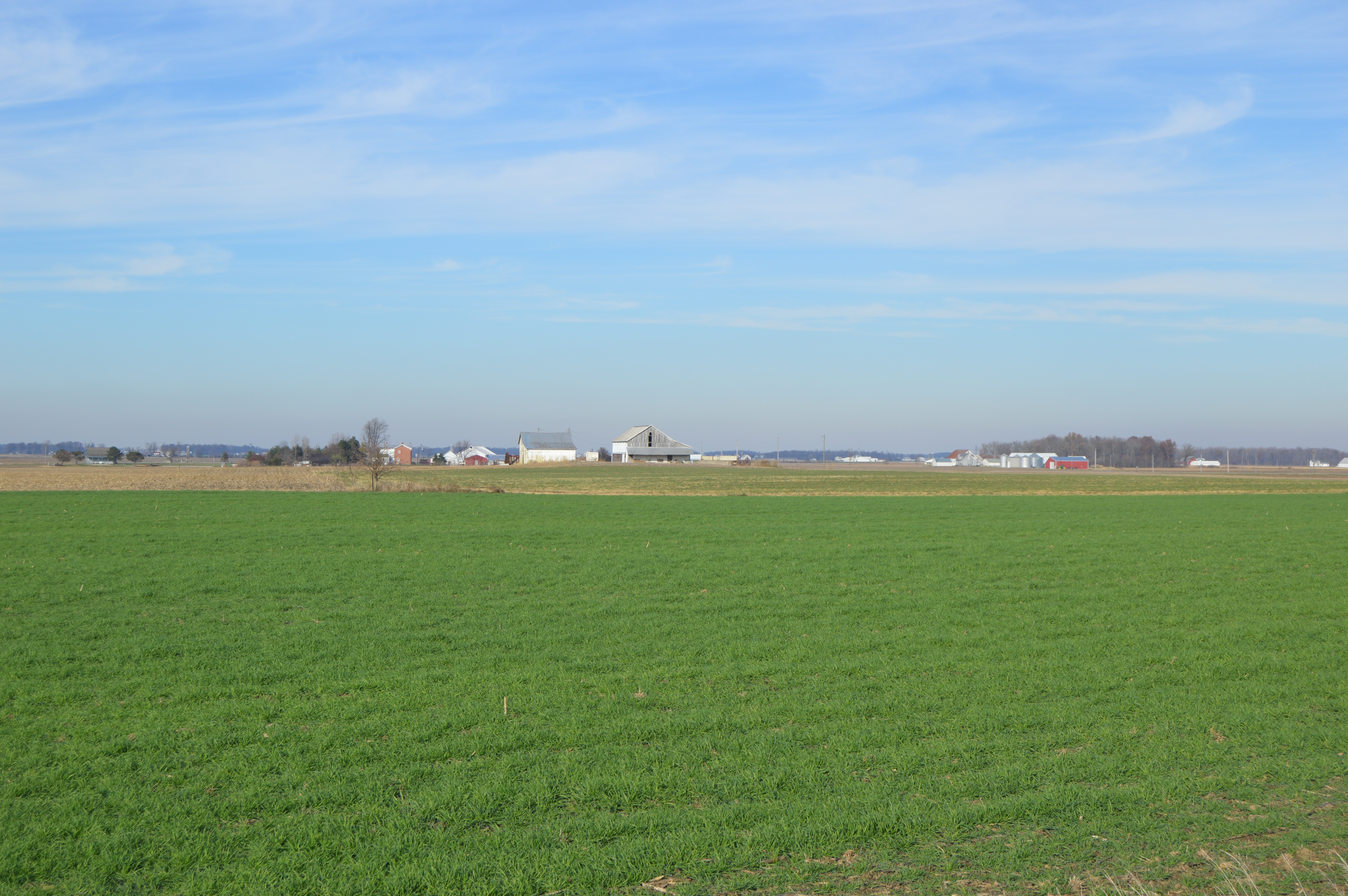 Looking northward from North Star Fort Loramie Road over wheat fields east of Yorkshire in eastern Patterson Township, Darke County, Ohio, United States.